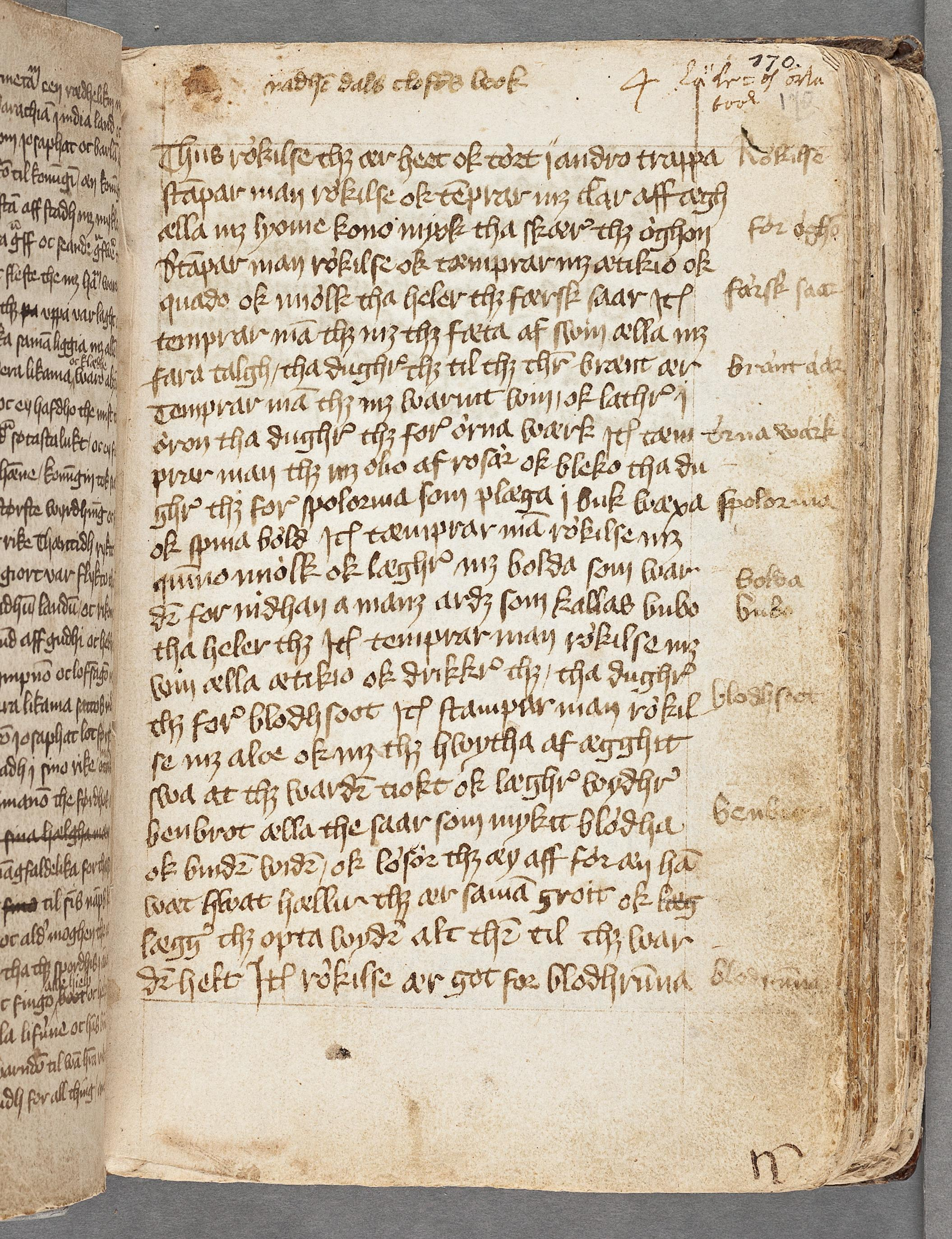 The first page of Naantali monastery's herbal in manuscript A 49. Nådendals klosterbook (Stockholm, National Library).